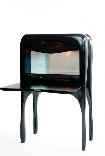 Desk